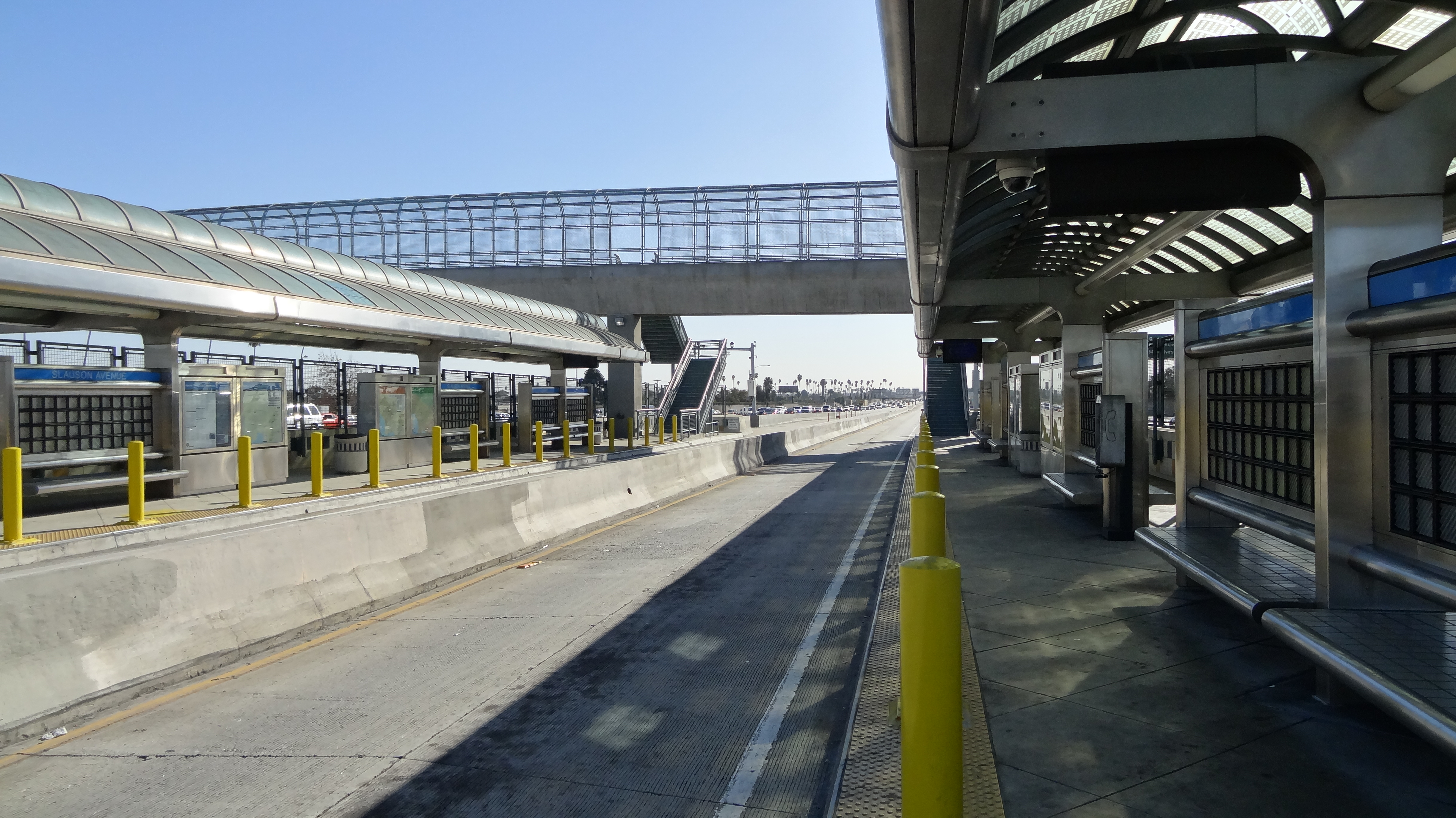 Slauson Metro Silver Line station, southbound platform